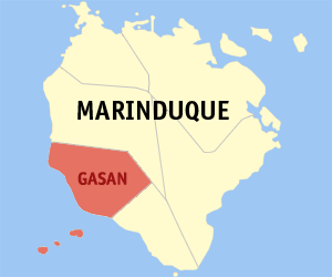 Map of Marinduque showing the location of Gasan